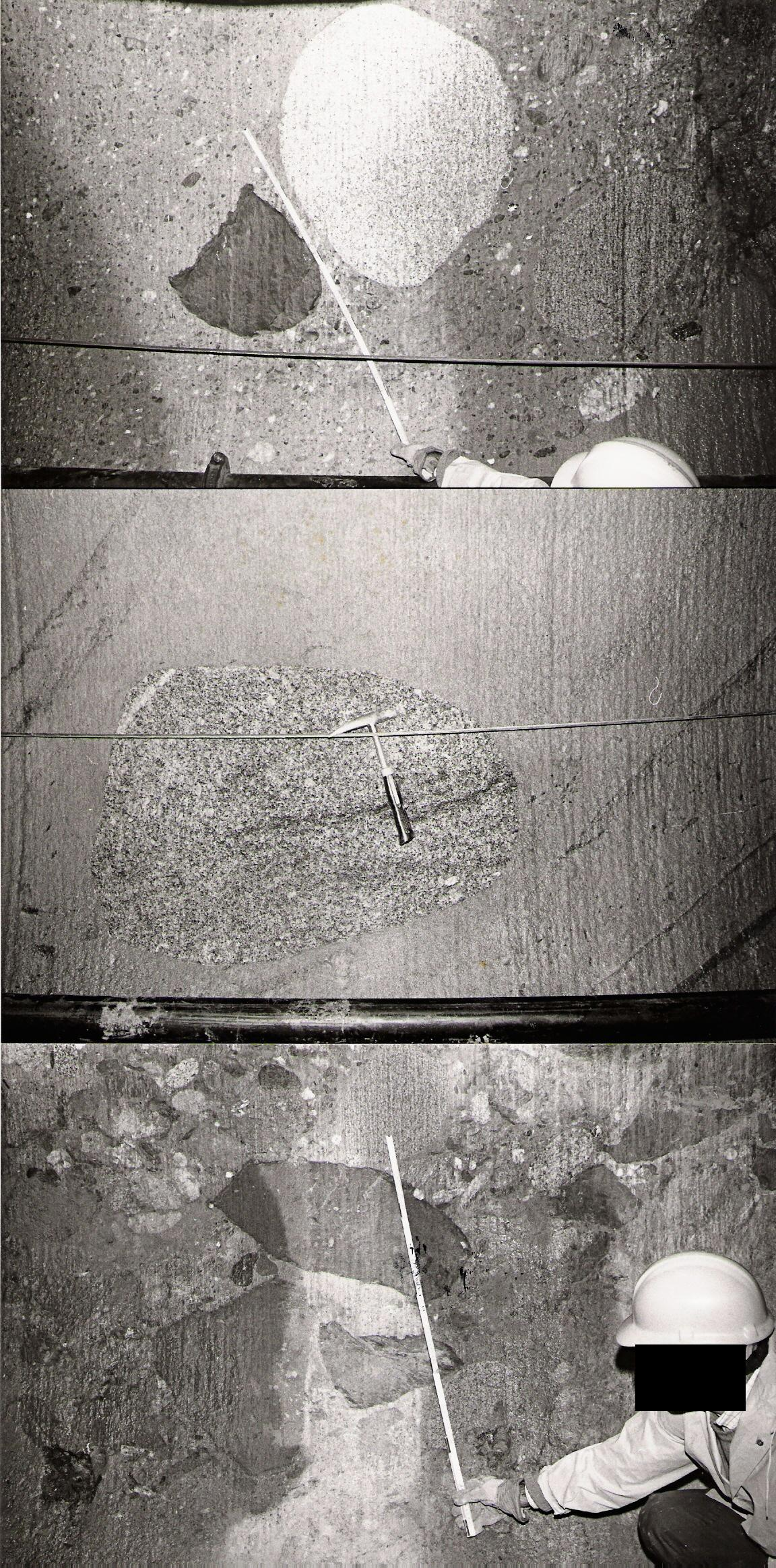 Typical lithofacies of Gonfolite Group, Como Conglomerate (Latest Oligocene - Earliest Miocene, northern Lombardy, Italy). From top to bottom: well-rounded boulders of grano-diorite and a mud-clast encased into a micro-conglomerate matrix; a grano-diorite boulder in sandstone matrix; coarse-grained matrix-supported conglomerate with frequent mud-clasts.